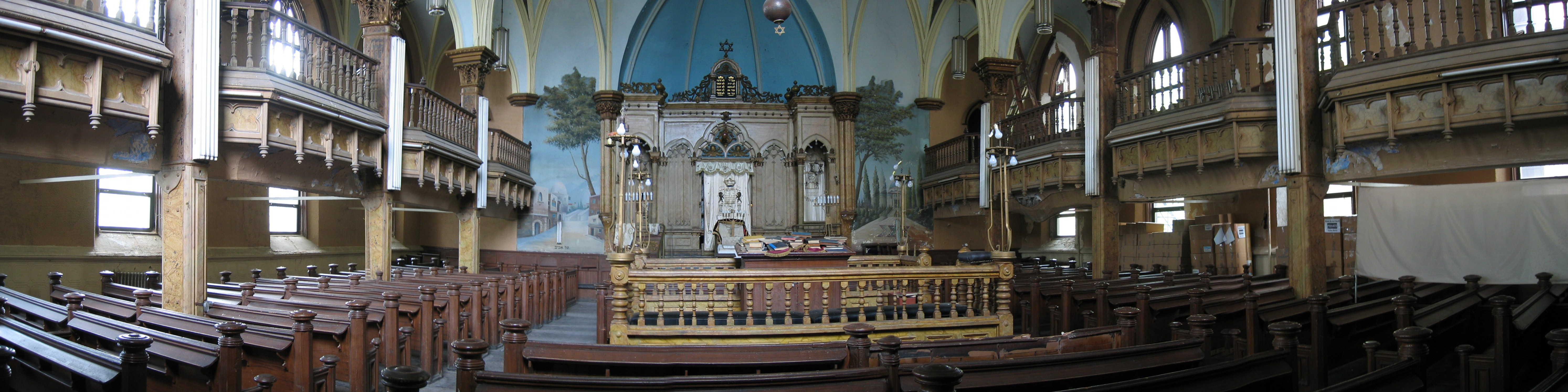 The interior of Beth Hamedrash Hagodol synagogue in Manhattan, April 2005.